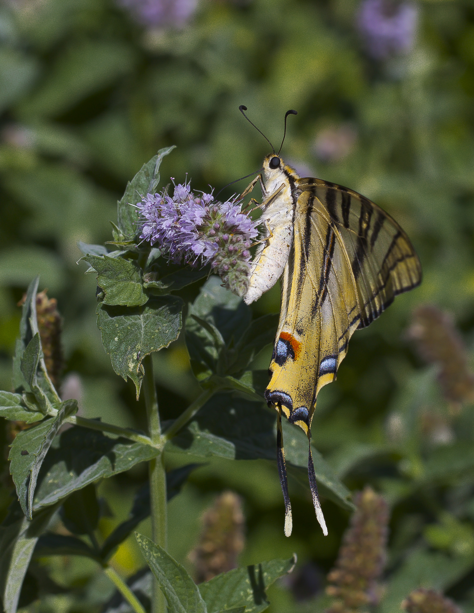 Southern scarce swallowtail (Iphiclides feisthamelii), Añón, Spain